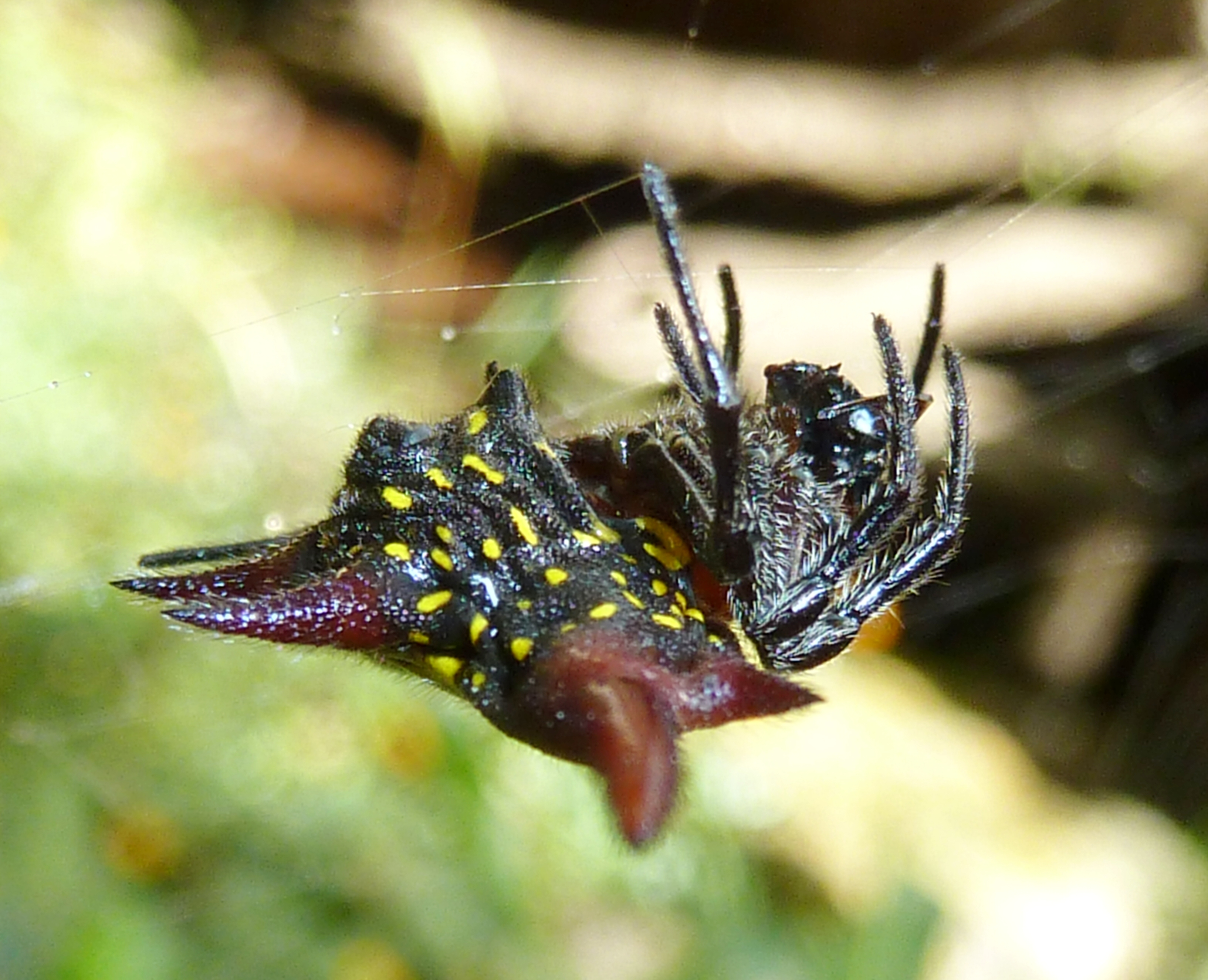 Long-winged kite spider in the Krantzkloof Nature Reserve in Kloof, KwaZulu-Natal